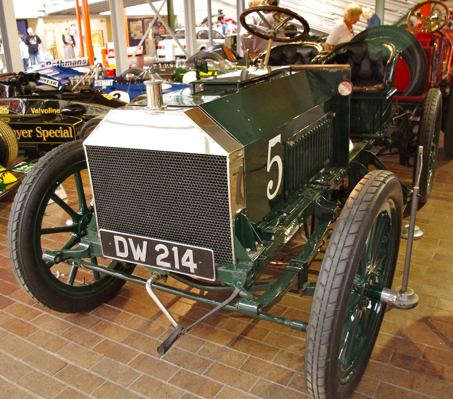 1903 Napier 100-HP Gordon Bennett Trophy race car at the National Motor Museum, Beaulieu